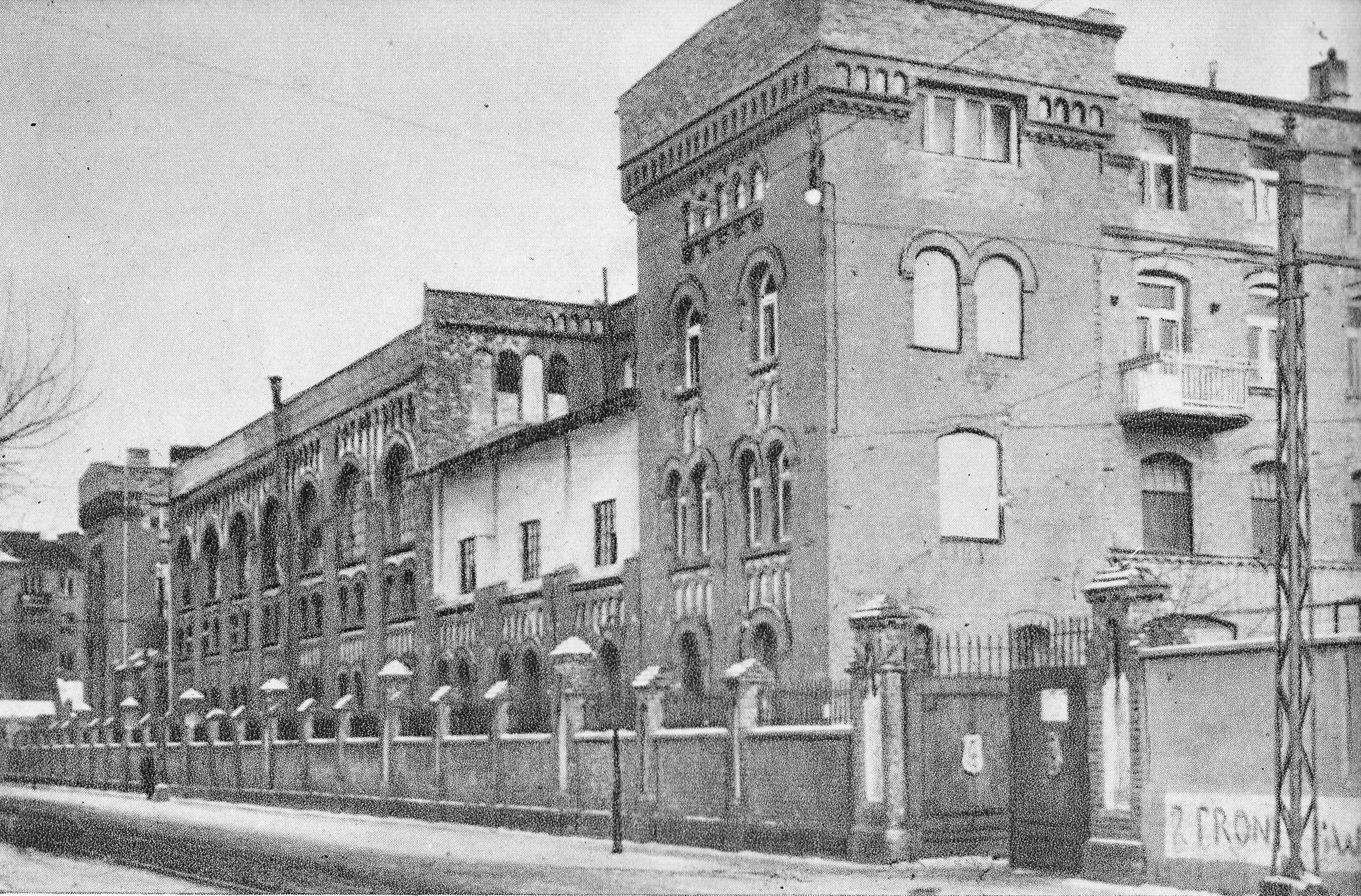 Former Tram Electricity Plant in Warsaw